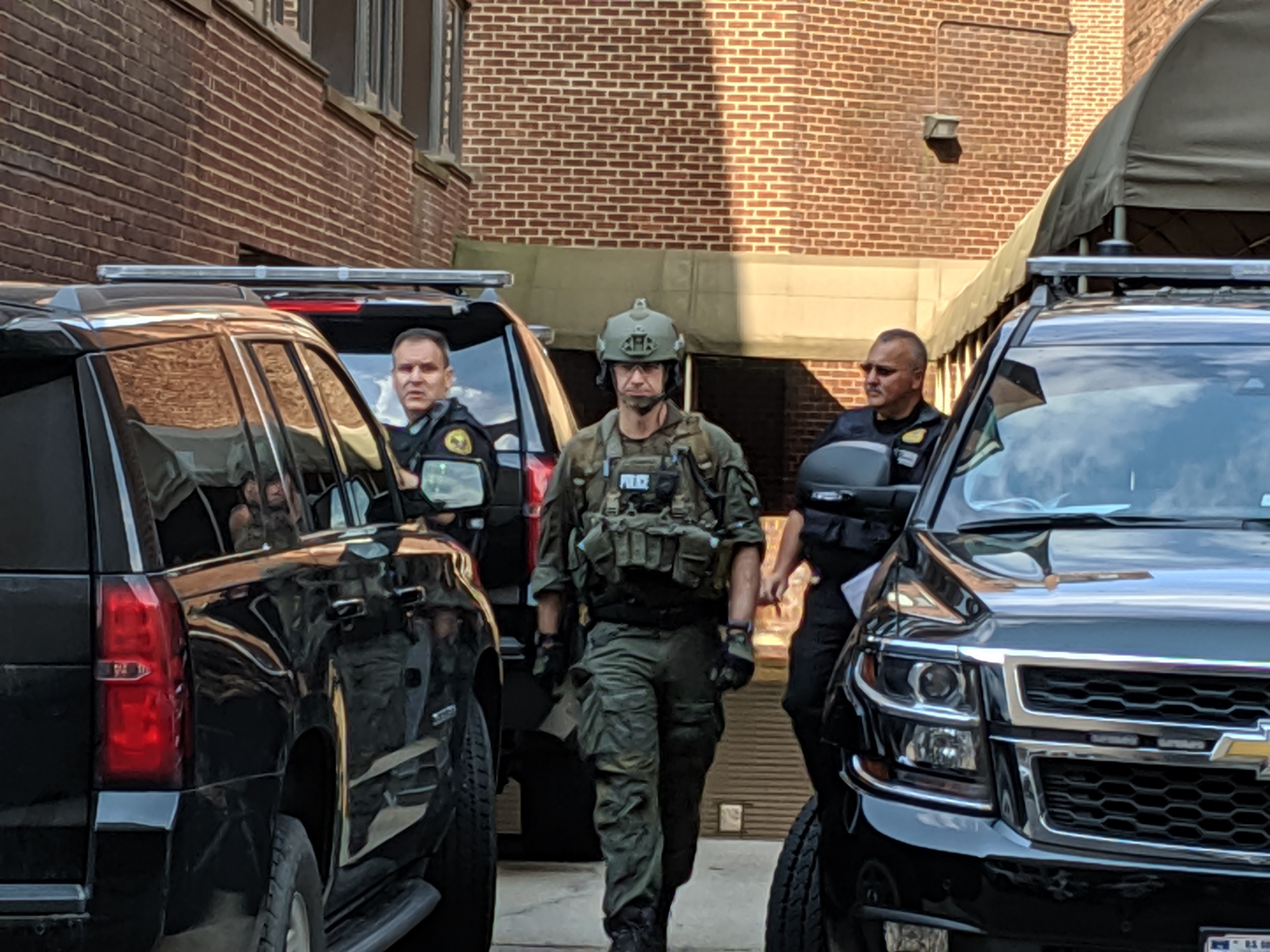 MSD Agent exiting the Venezuelan Embassy in Washington DC